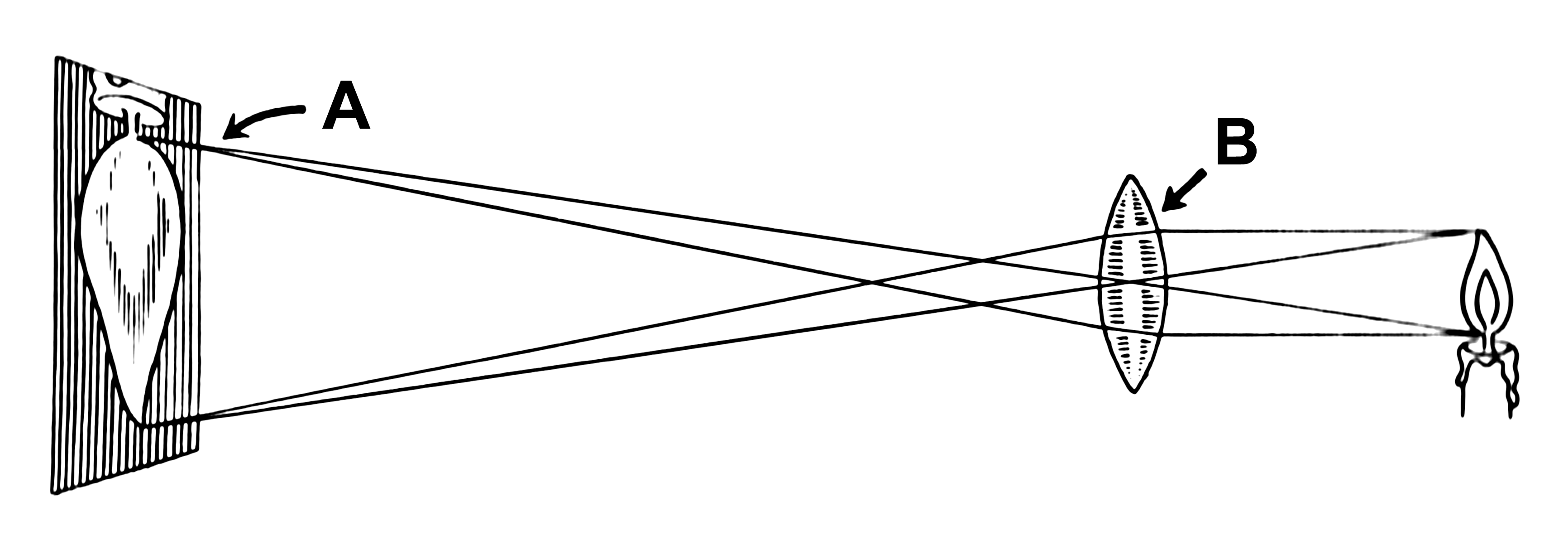 Line art drawing of a lens.